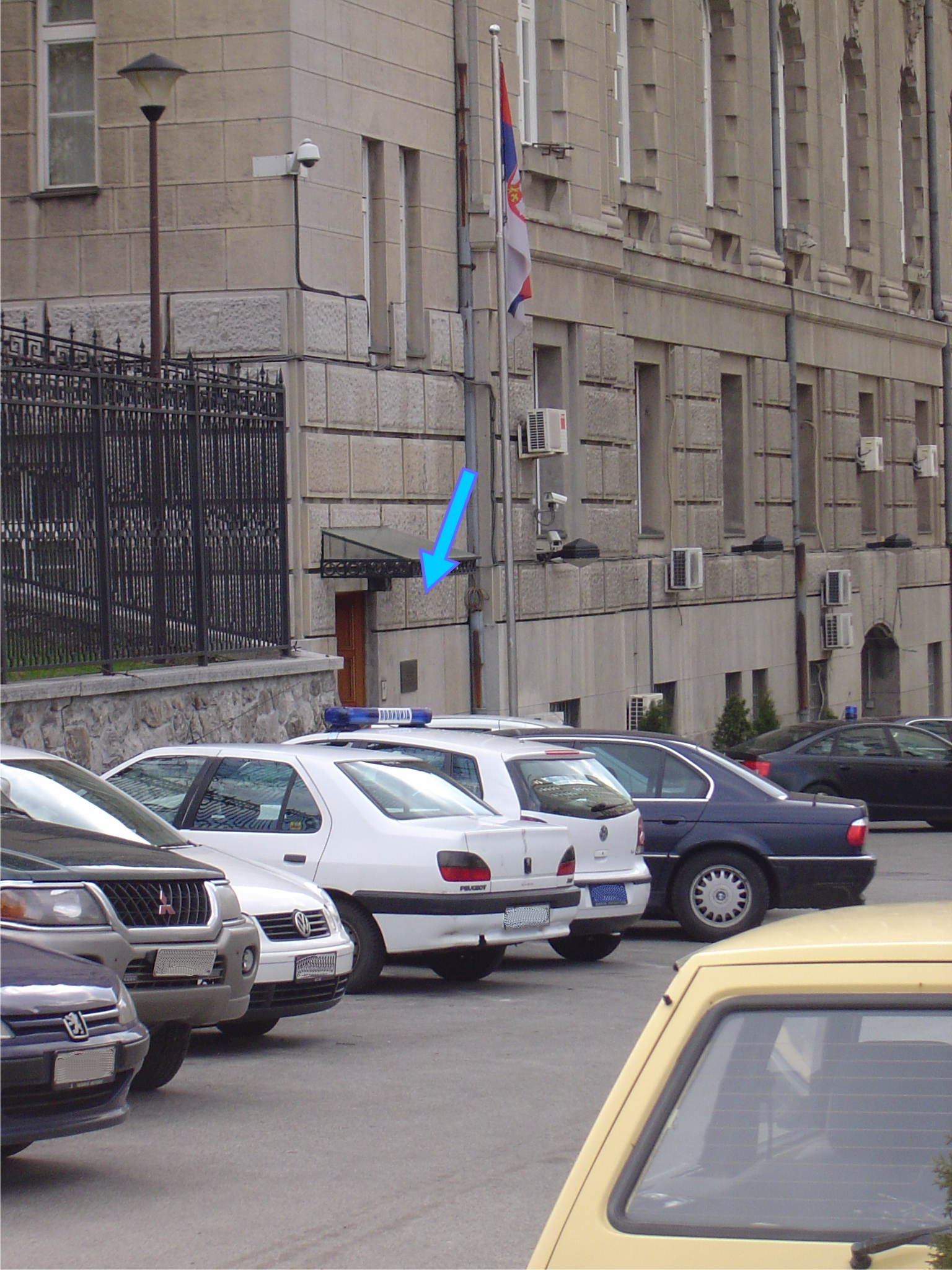 Building of Government of Republic of Serbia. The arrow marks entrance #5, where Serbian Prime Minister Zoran Đinđić stood when he was assassinated by Zvezdan Jovanović on 12 March 2003. At the moment of the assassination, the parking lot was empty, except for PM's motorcade. There is a commemorative plaque next to the entrance.